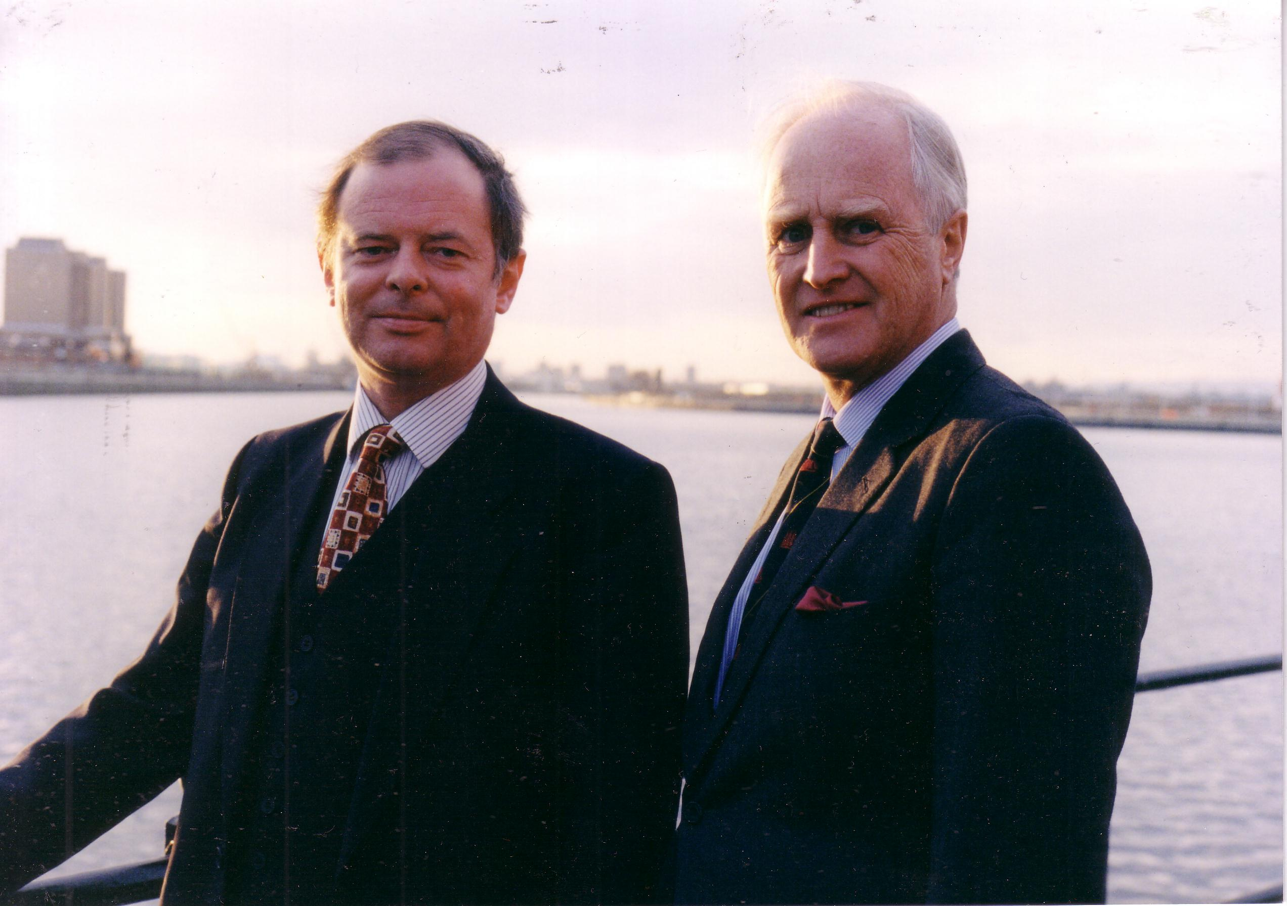 John R. Gregory and Winston Spencer Churchill photographed on the banks of the Manchester Ship Canal during preparations for the 1997 General Election. At which Churchill handed over the constituency to his friend and protege Gregory.